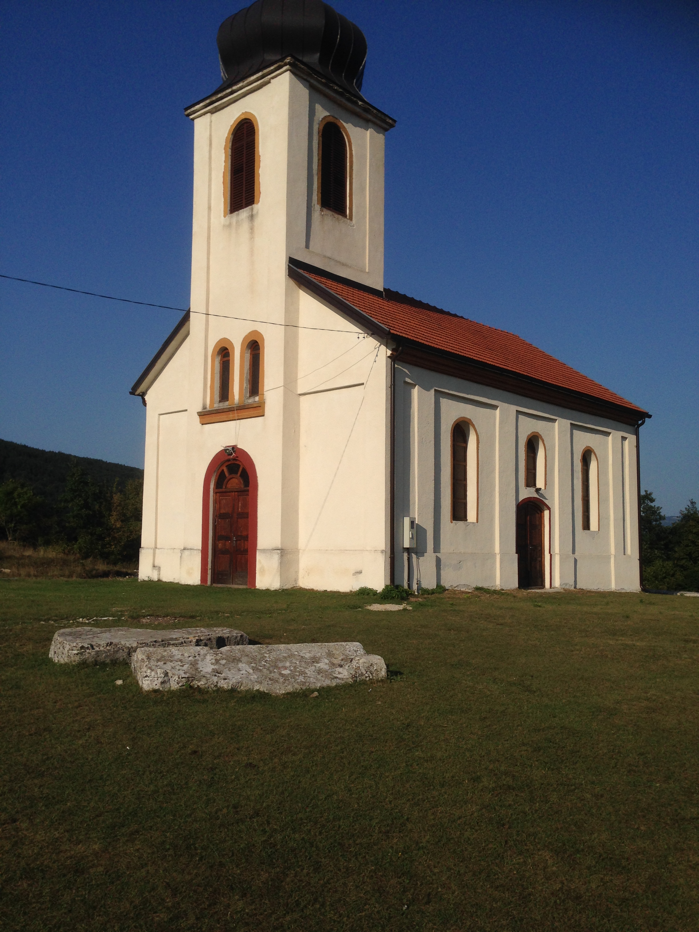 Vrtoče - church